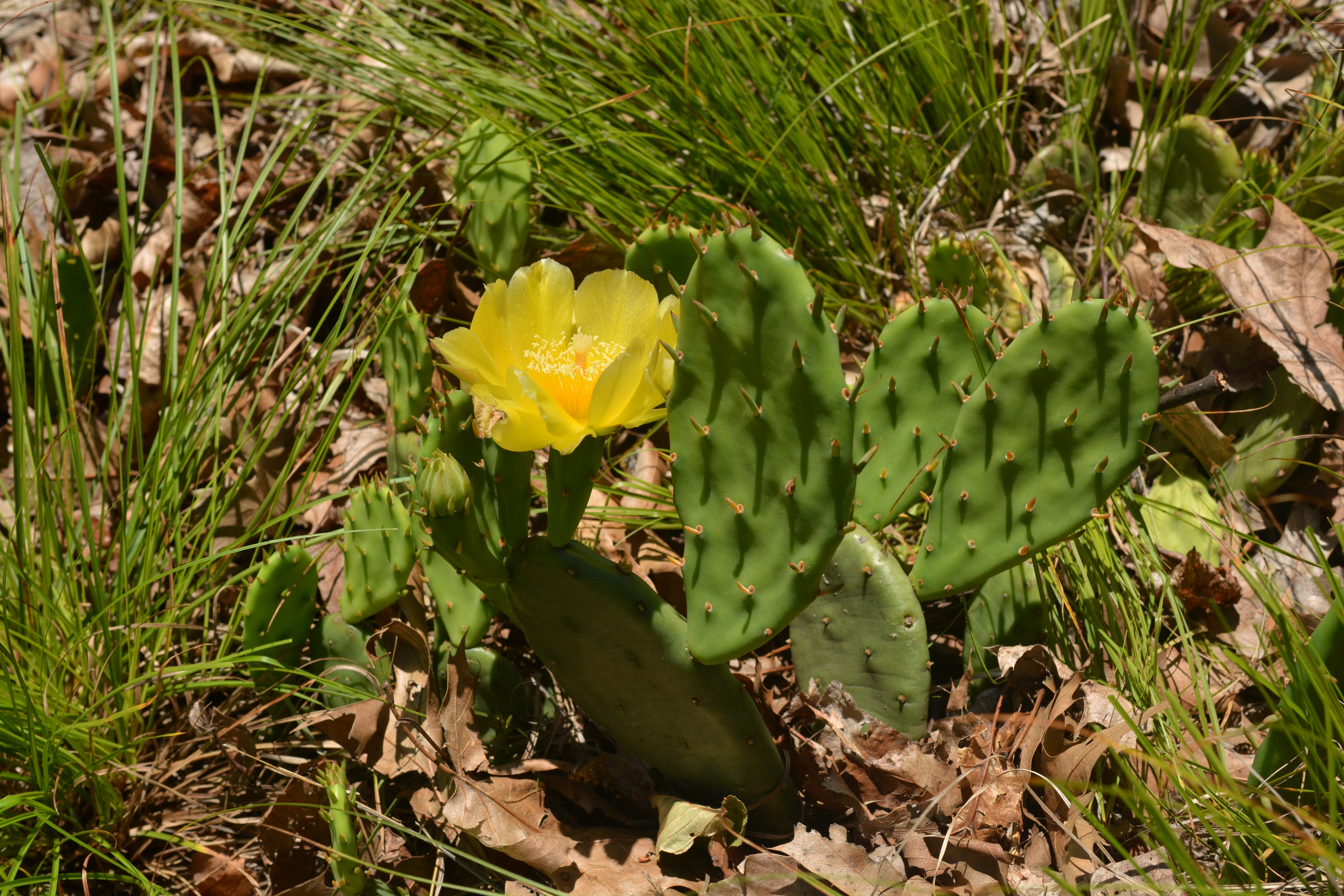 Eastern prickly pear (Opuntia humifusa) growing wild atop Sugarloaf Hill (Putnam County, New York), USA.